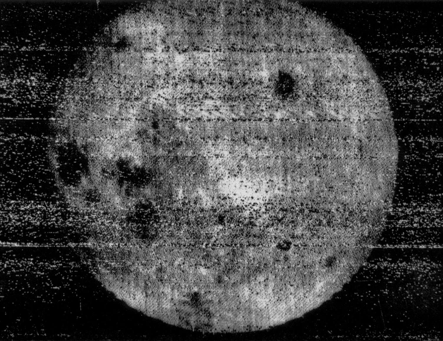 Historic photo - the first full view of significant quality (croped frame number 29)[1], of the first series of photos of the far side of the Moon, taken by Luna 3, October 7, 1959. The dark patches at left include Mare Crisium (on the near side), Mare Smythii, and Mare Marginis (on the border of the near and far sides). At bottom is Mare Ausatrale. The dark patch above right of center is Mare Moscoviense, and below right of center is Tsiolkovskiy crater. Below and to the right of Tsiolkovskiy is Jules Verne crater.